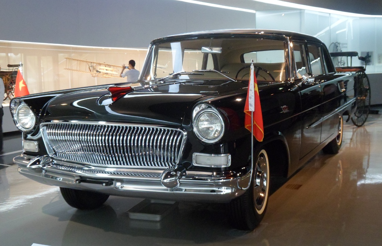 1959 Hongqi CA72 photographed at the Shanghai Automobile Museum, Anting, China.